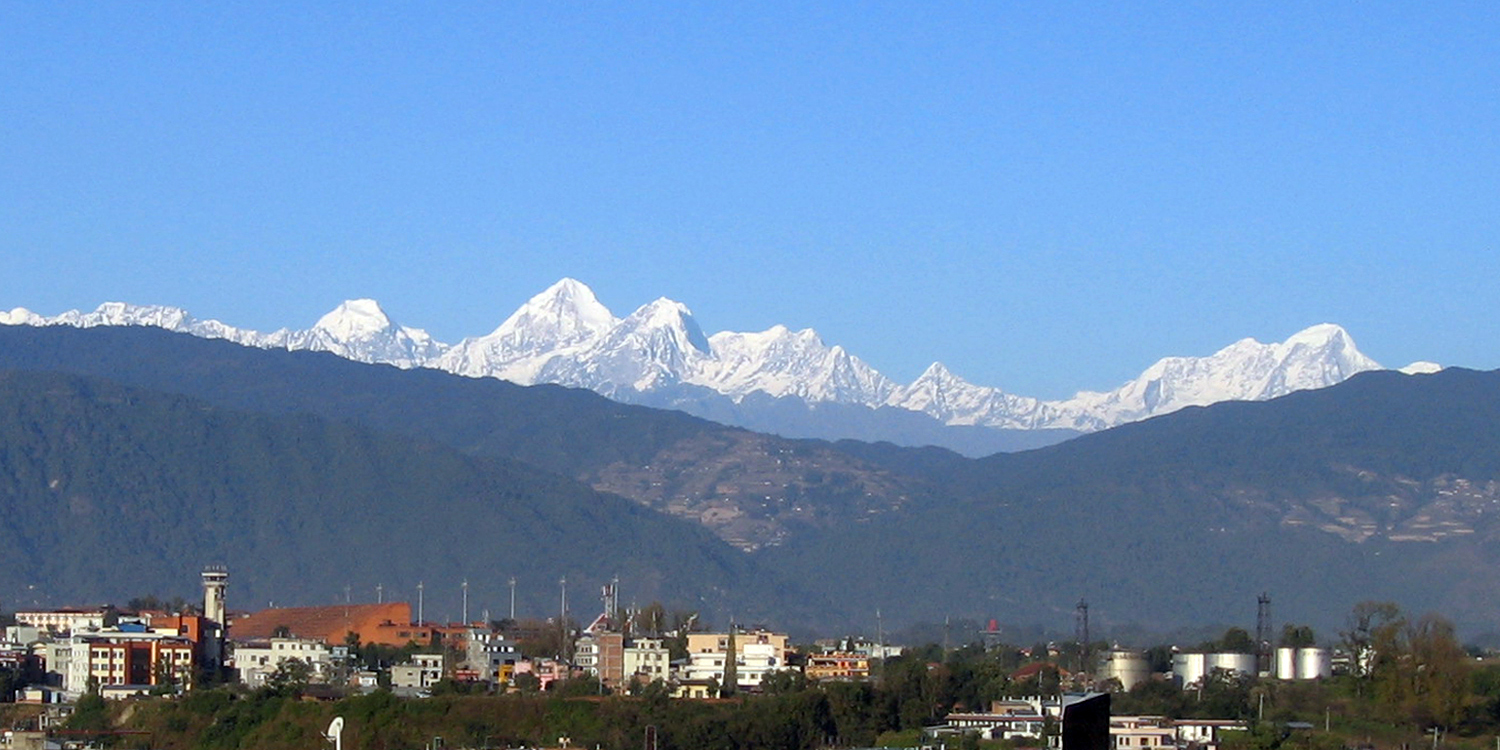 Kathmandu airport with the Himalaya in the background. The control tower and fuel tanks can be seen at the left and right respectively.